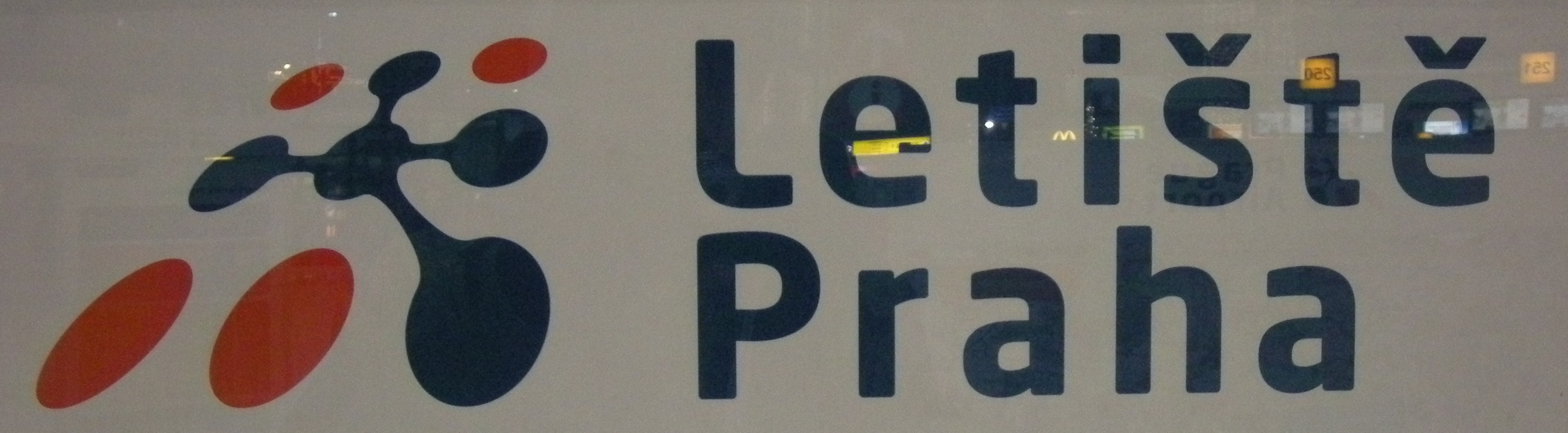 Logo of Prague-Ruzyně International Airport, Czech version.